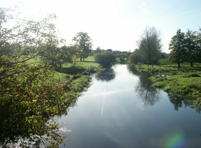 River Tiffey, Carelton Forehoe. Looking south west (upstream).